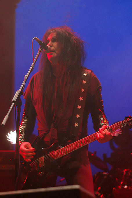 WASP' concert at Moscow, Russia (Blackie Lawless)